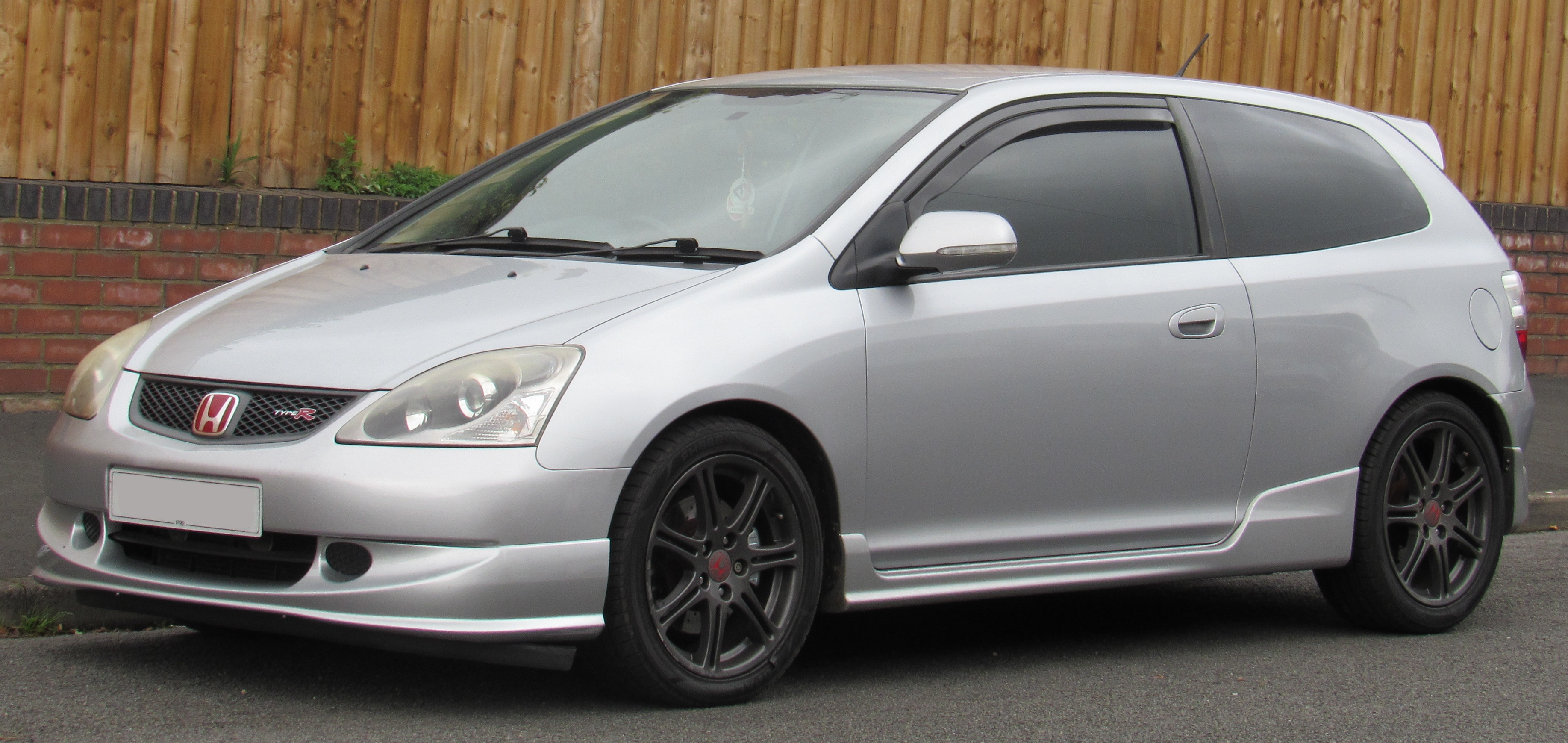 2005 Honda Civic Type-R 2.0 Front Taken in Leamington Spa